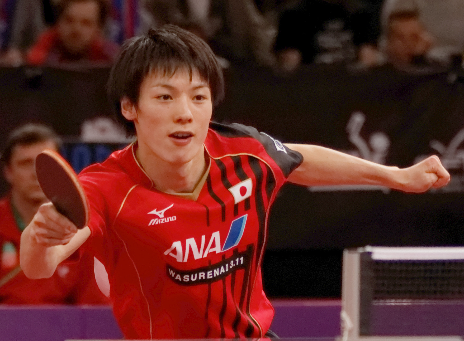 2013 World Table Tennis Championships, Paris. Men's Singles Round 4. Kenta Matsudaira vs Vladimir Samsonov.